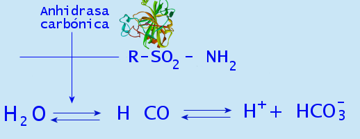 Inhibition of the carbonic anhydrase by sulfanilamide. Made with Corina Software